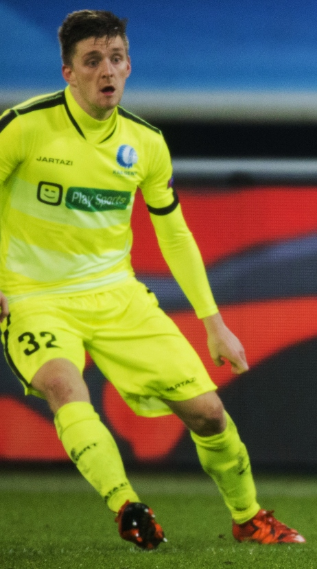 Thomas Foket